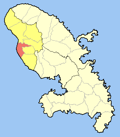 Location of Le Carbet within Martinique